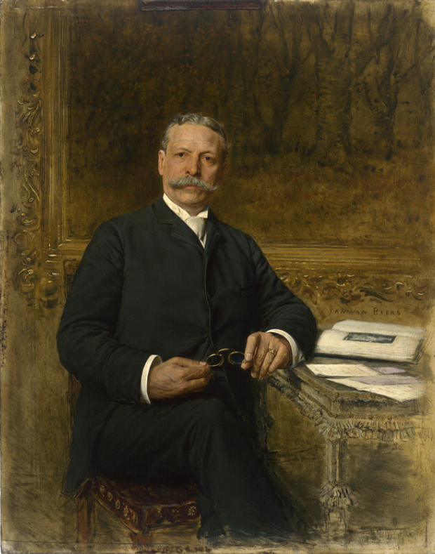 Portrait of Charles Tyson Yerkes (1837–1905), Oil on panel 9¾ x 11¾ in.